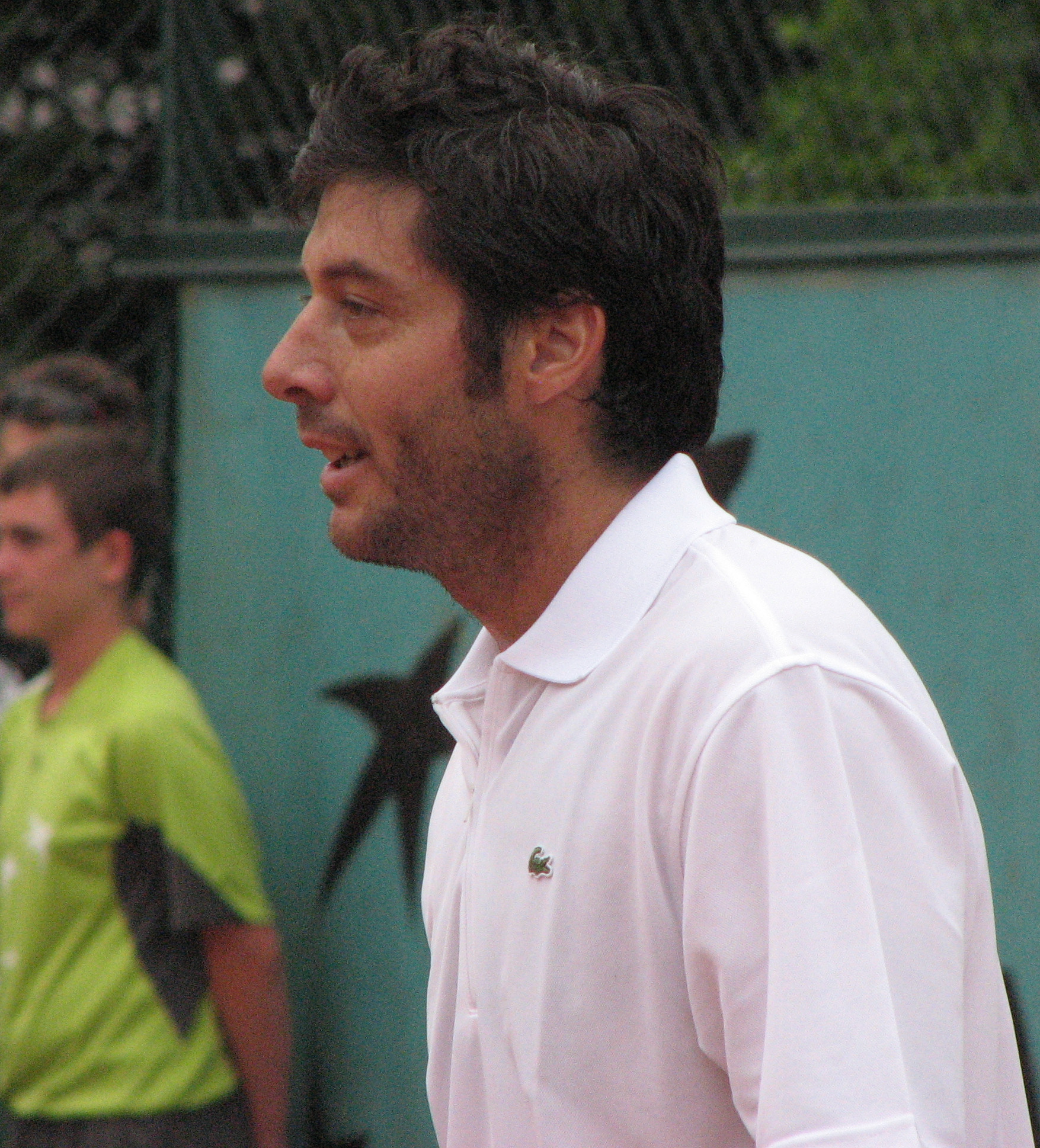 Sébastien Grosjean at the French Open (2009)